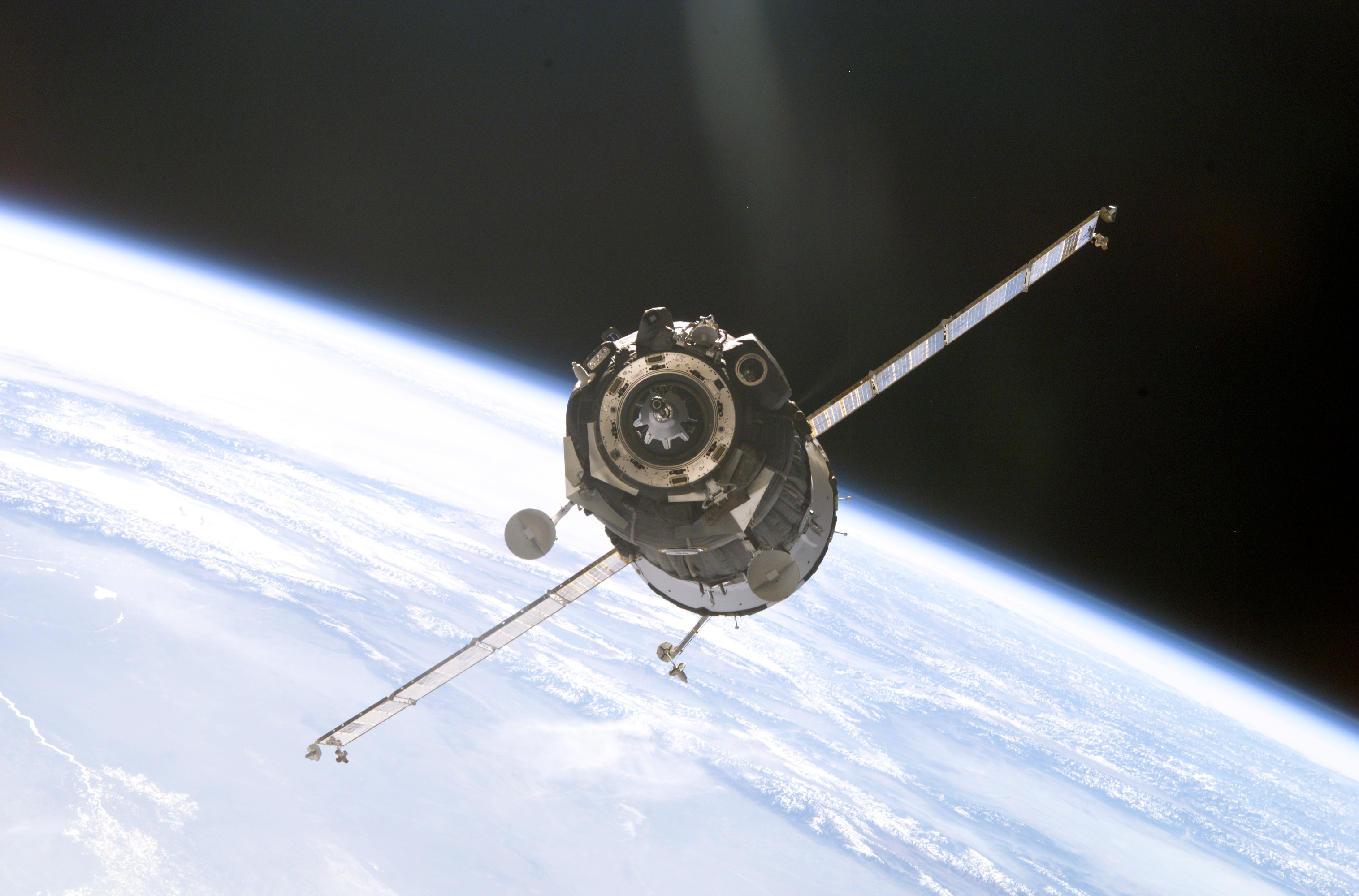 Image of Soyuz TMA-1. NASA photo ISS005-E-19267 taken 1 November 2002. The description is as follows: A Soyuz spacecraft approaches the Pirs docking compartment on the International Space Station (ISS) carrying the Soyuz 5 taxi crew, Commander Sergei Zalyotin, Belgian Flight Engineer Frank DeWinne, and Flight Engineer Yuri V. Lonchakov for an eight-day stay on the station. The new Soyuz TMA-1 vehicle was designed to accommodate larger or smaller crewmembers, and is equipped with upgraded computers, a new cockpit control panel and improved avionics. Zalyotin and Lonchakov represent Rosaviakosmos and DeWinne represents the European Space Agency (ESA). The blackness of space and Earth’s horizon provide the backdrop for the scene.